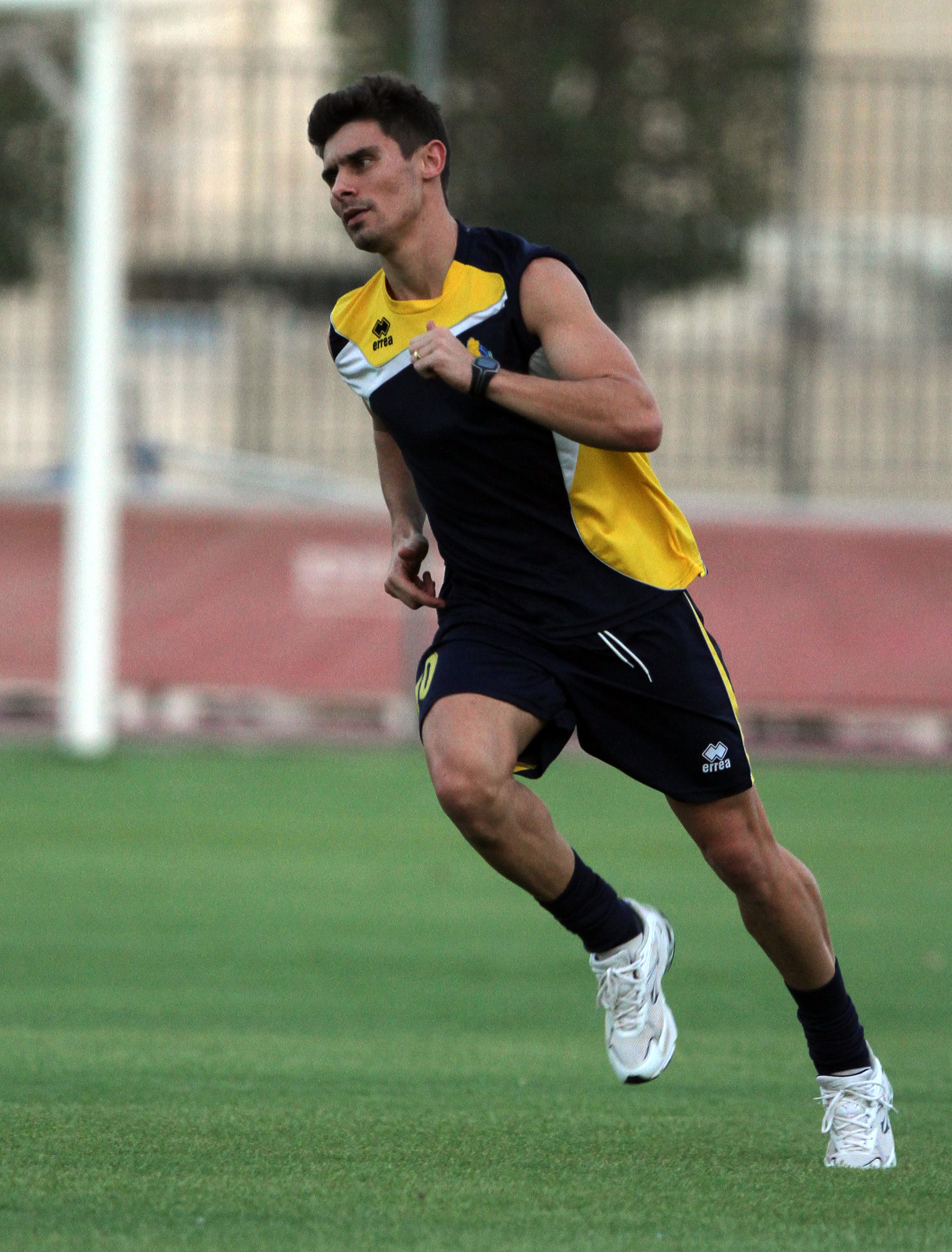 Al Gharafa's Brazilian player Alex Raphael Meschini during a training session. Picture by Vinod Divakaran